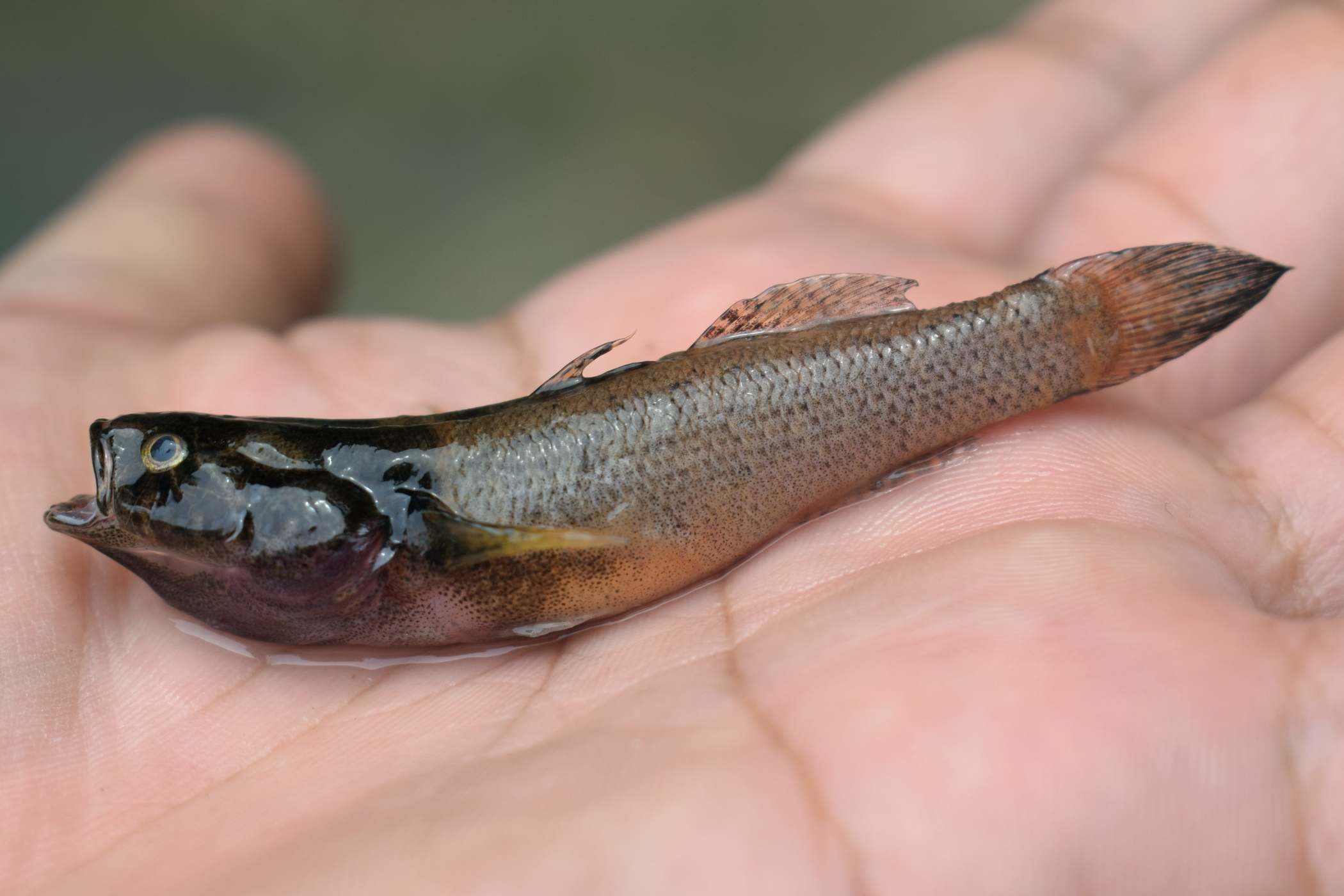 Dusky sleeper, Eleotris fusca, ca 62 mm SL. Dead specimen. From Banyumas, Central Java, Indonesia.